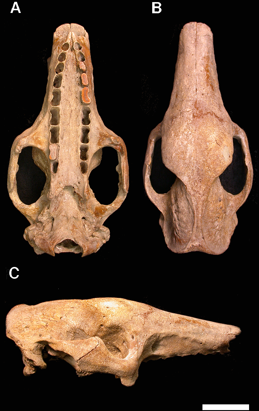 Holmesina, Skull of H. floridanus (UF 191448): (A) ventral view; (B) dorsal view, (C) right lateral view. Scale bars = 5 cm